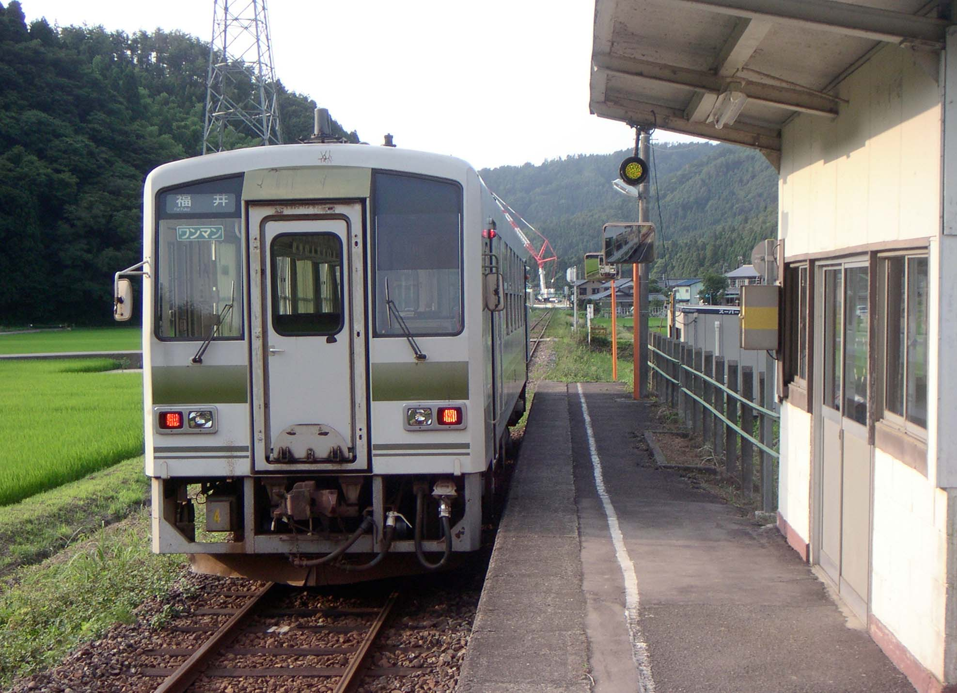 West Japan Railway Company Etsumi-Hoku Line, Ichijodani Station.